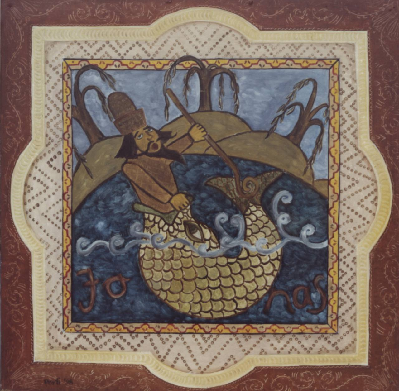 Zoltán Joó - Jonah and the Whale, oil painter on fibre-board, 60 x 60 cm, from the series Stories of the Old Testament